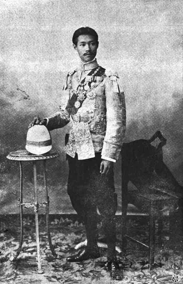 HRH Prince Benbadhanabongse, the Prince Pijaya Mahindrarodom, son of King Chulalongkorn (Rama V the Great) of Siam, and The Noble Consort (Chao Chom Manda) Morakor Phenkul